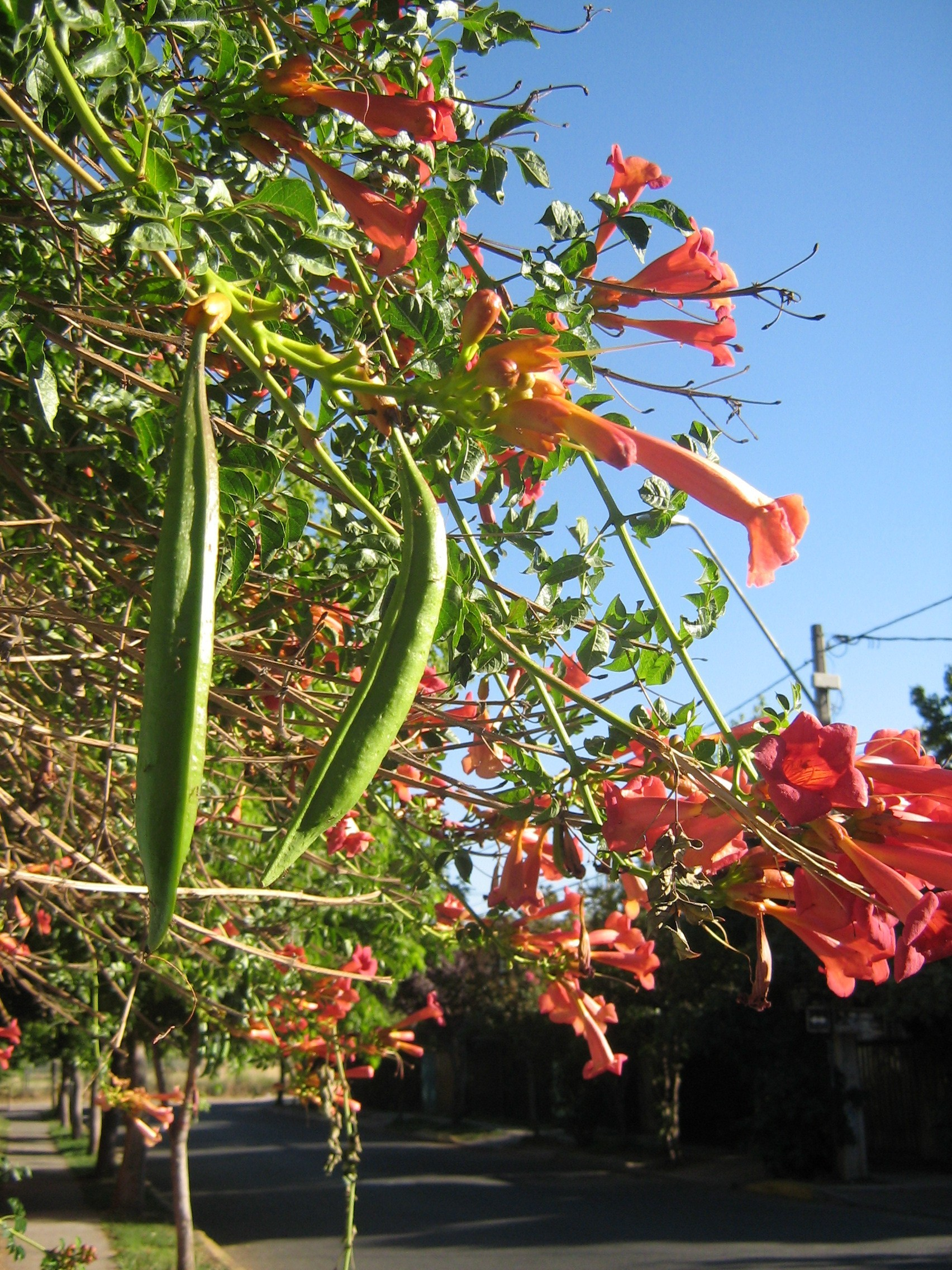 Campsis radicans flowers and fruits